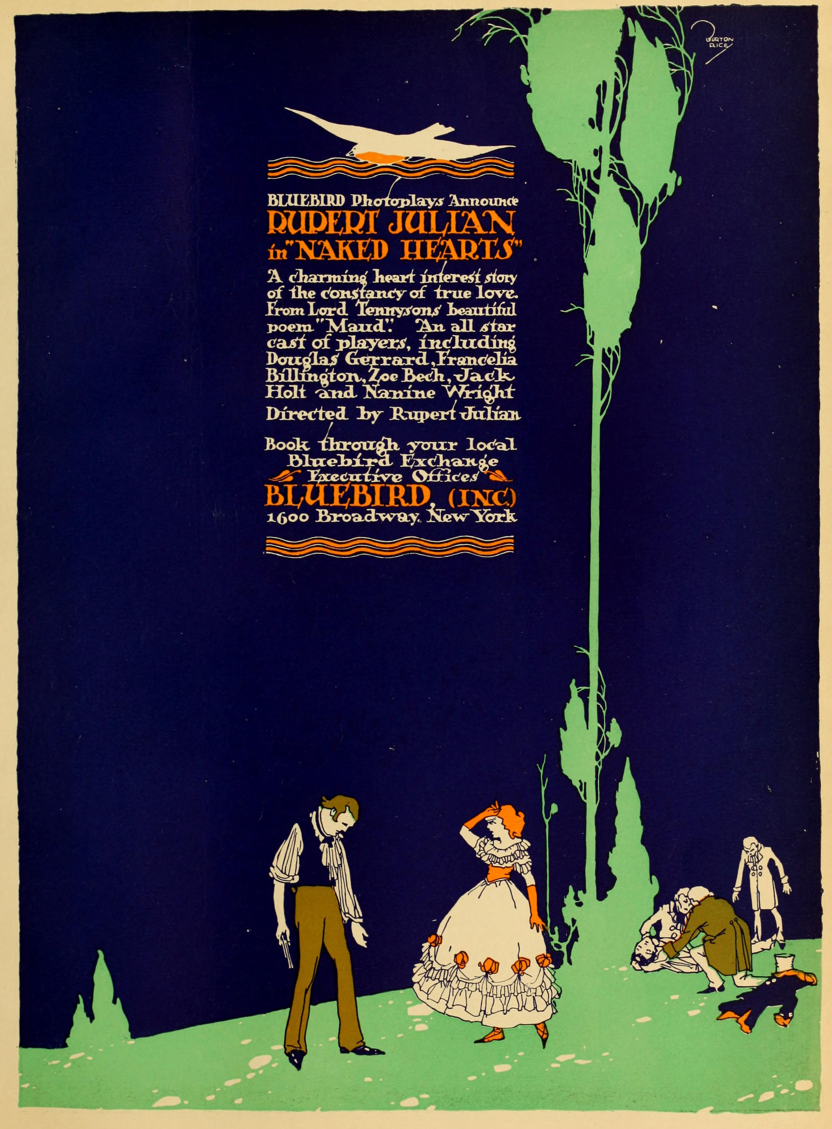 Advertisement in The Moving Picture World for the American drama film Naked Hearts (1916).